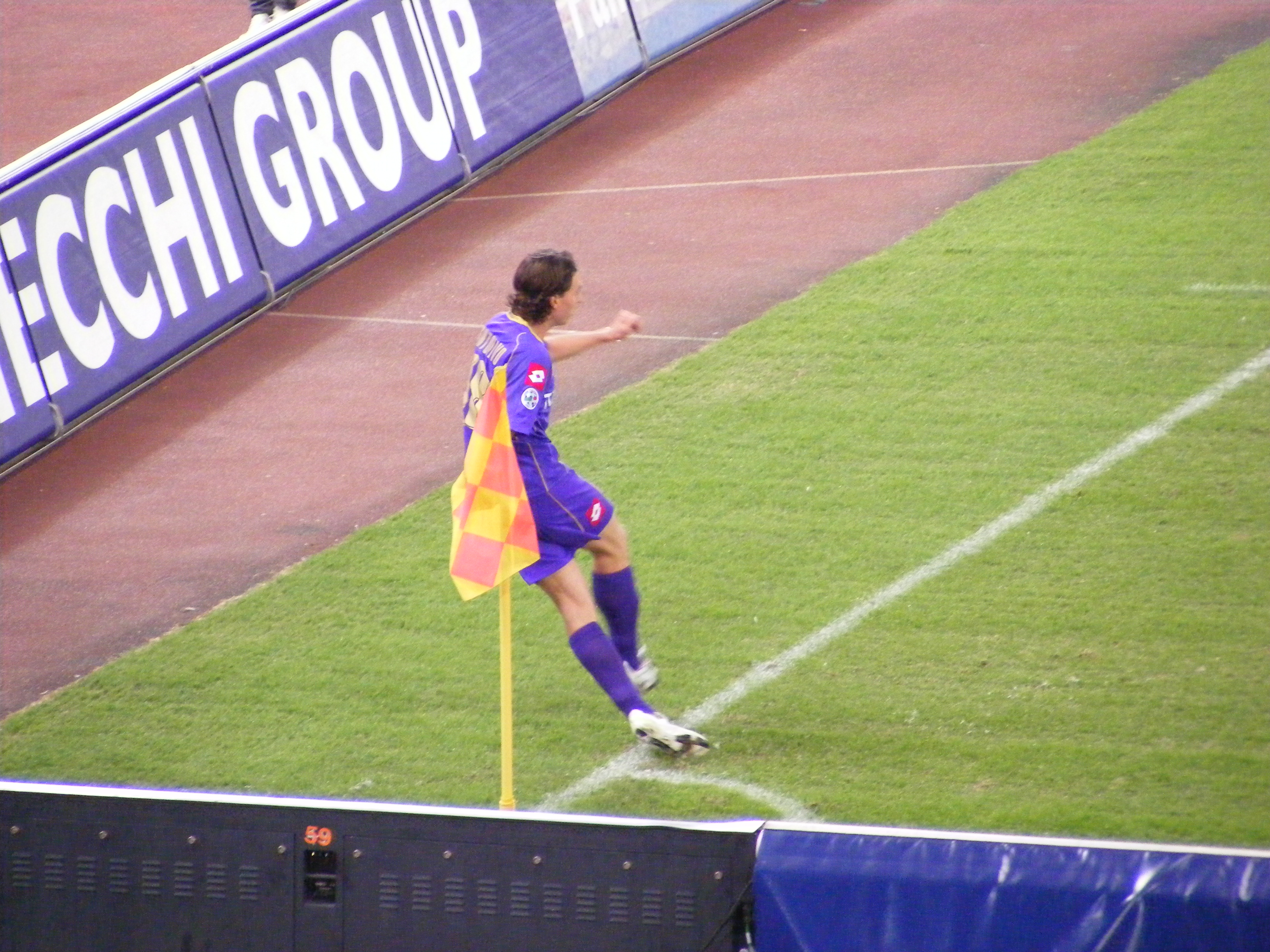 Riccardo Montolivo against S.S. Lazio